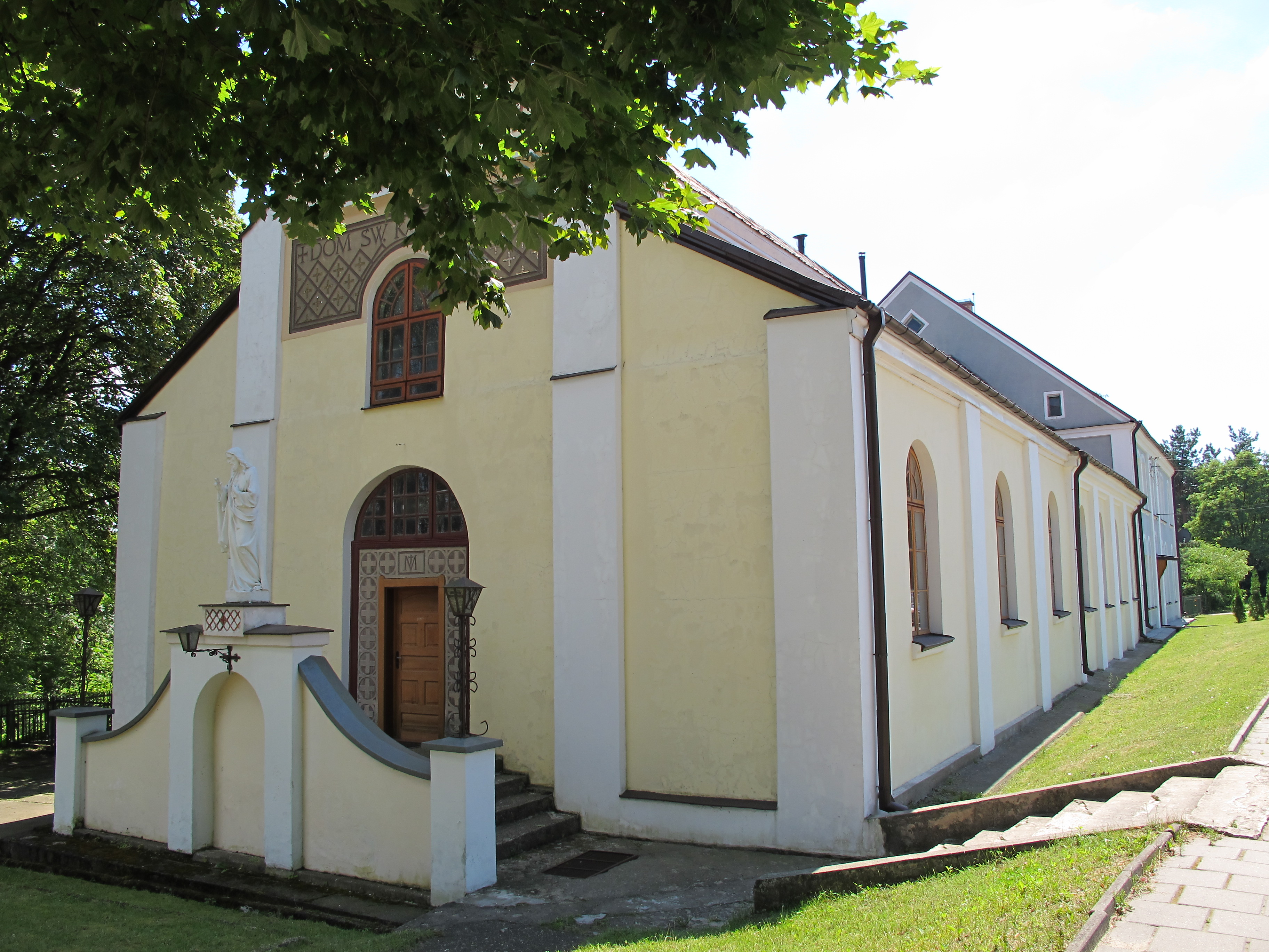 Chapel of saint Casimir near the church of Saint Mary of Częstochowa, Ks. Małynicza 1 street, Mońki, podlaskie, Poland.